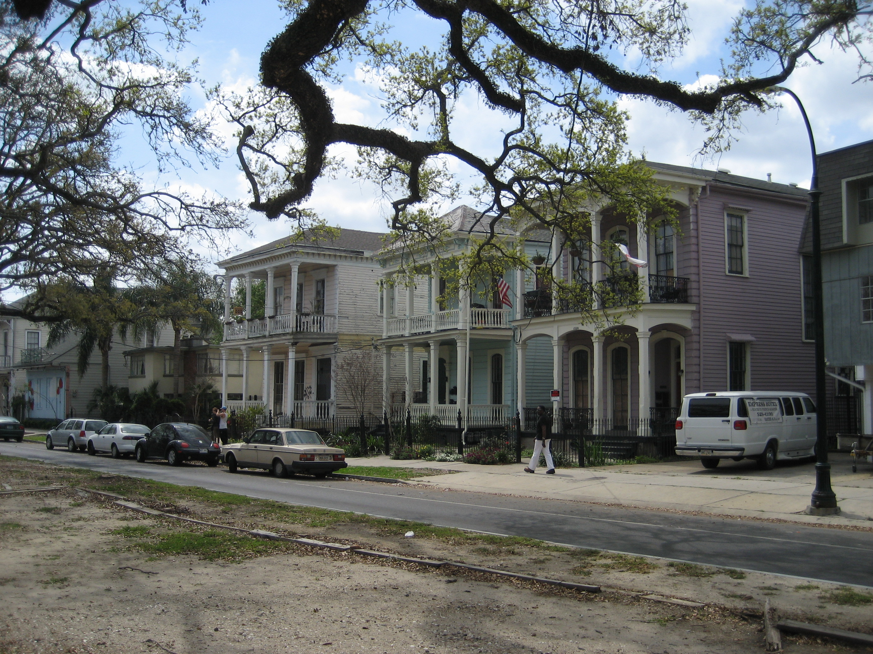 Houses on Esplanade Avenue, New Orleans as viewed from neutral ground Photo by Infrogmation of New Orleans